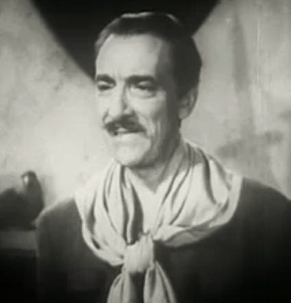 Pedro de Cordoba in Escape to Paradise (1939) - cropped screenshot.